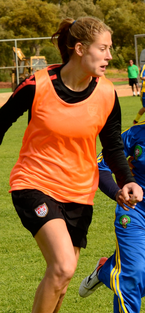 Marian Dalmy coaches in Morocco in May 2012 on behalf of the US Department of State.